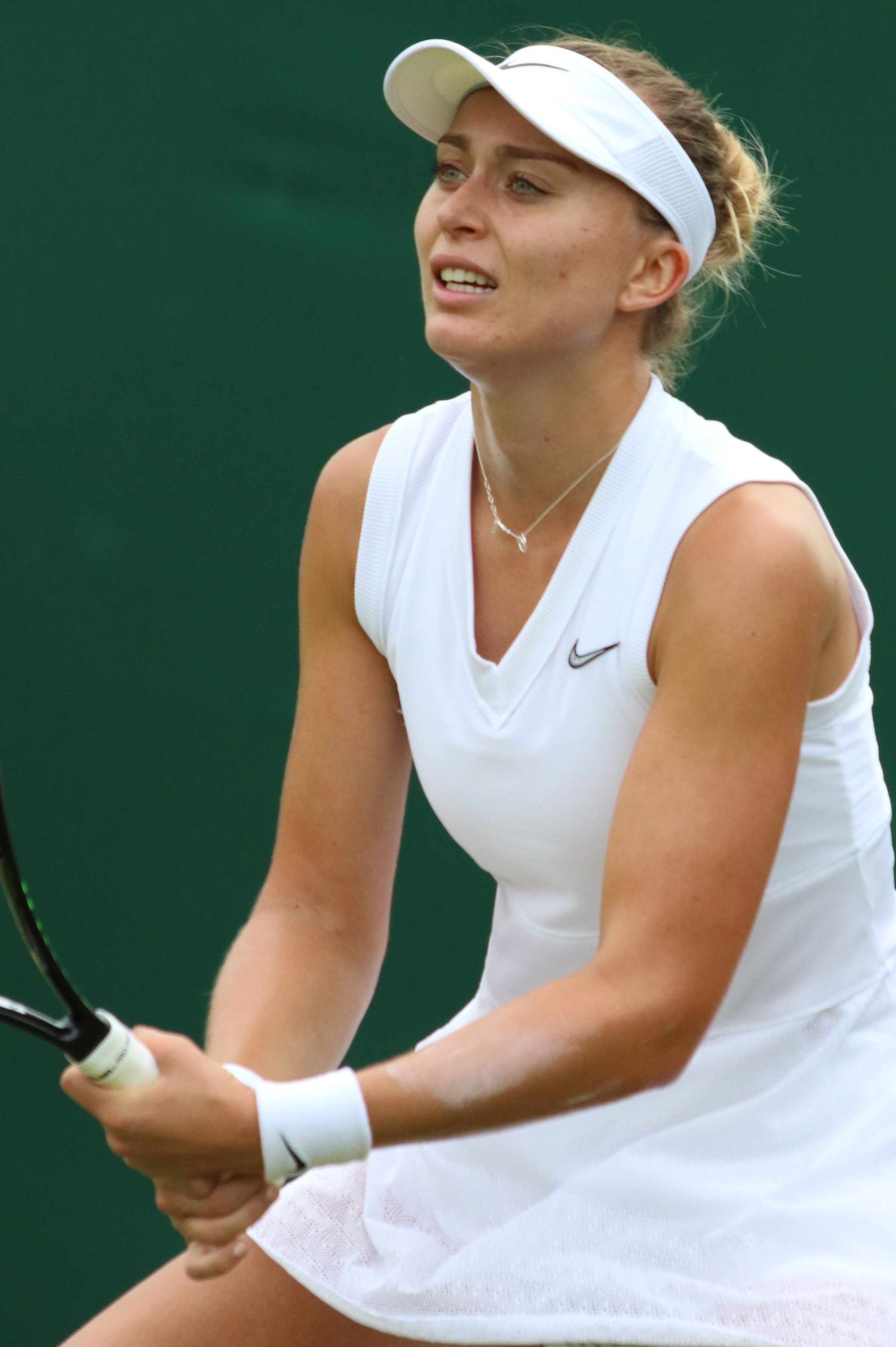 2019 Wimbledon Qualifying Tournament.